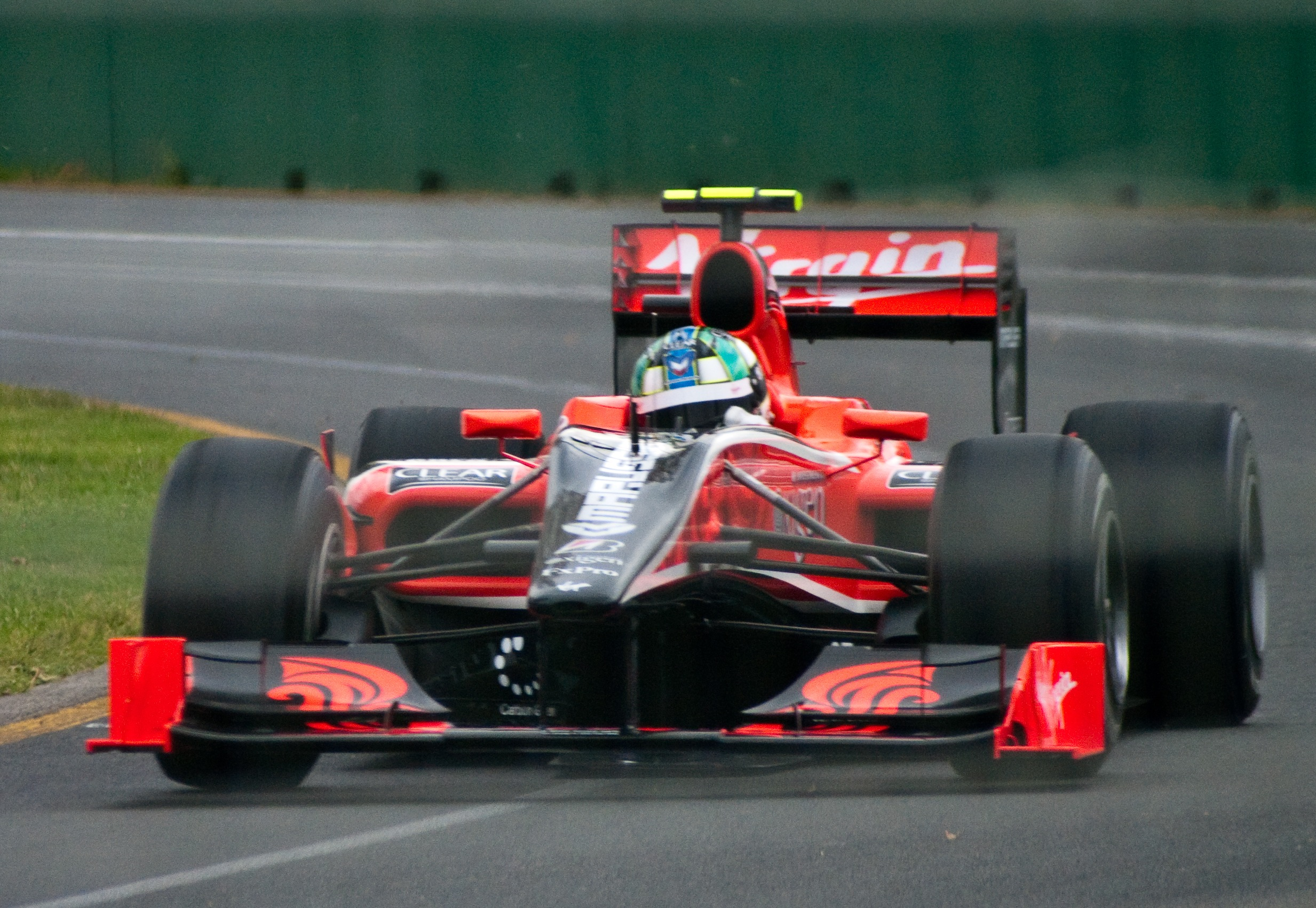 Lucas di Grassi driving for Virgin Racing at the 2010 Australian Grand Prix.